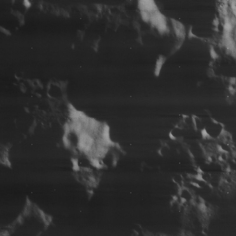 Slater crater, on the moon. The crater is close to the lunar south pole and much of the crater is in shadow at all times.